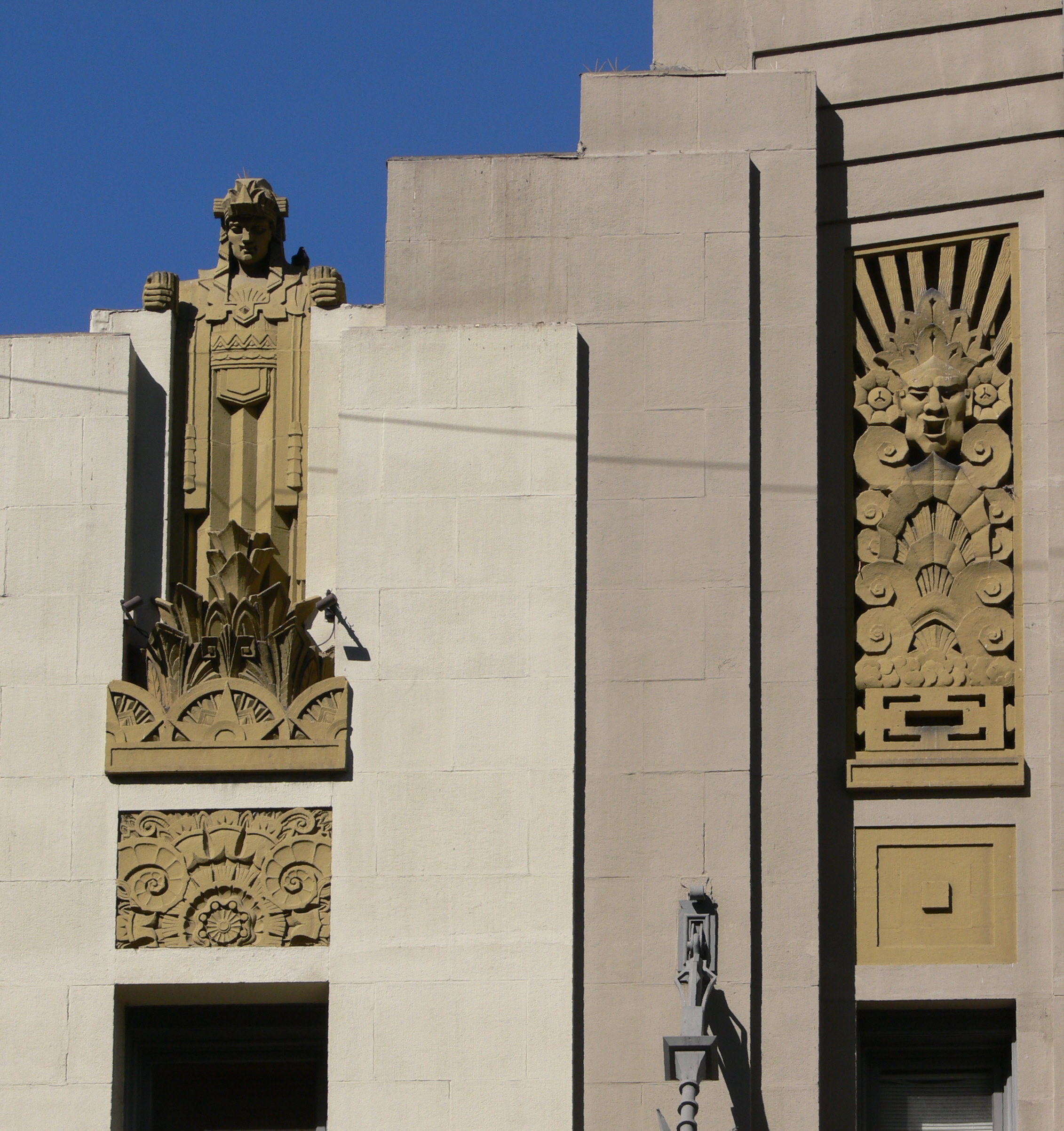 Pantages Theatre, Hollywood Boulevard, Los Angeles, California